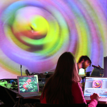 This image shows a VJ mixing two videos together from different laptops.